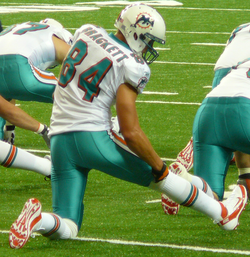 If used somewhere other than Wikipedia, Nelson, by name.